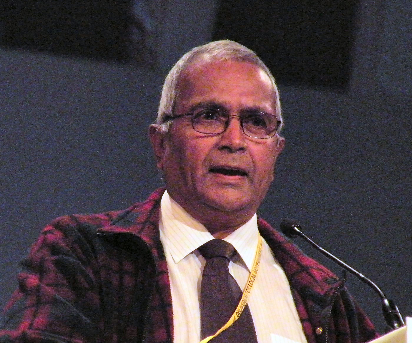 Lord Dholakia addressing a Liberal Democrat conference in the Bournemouth International Centre